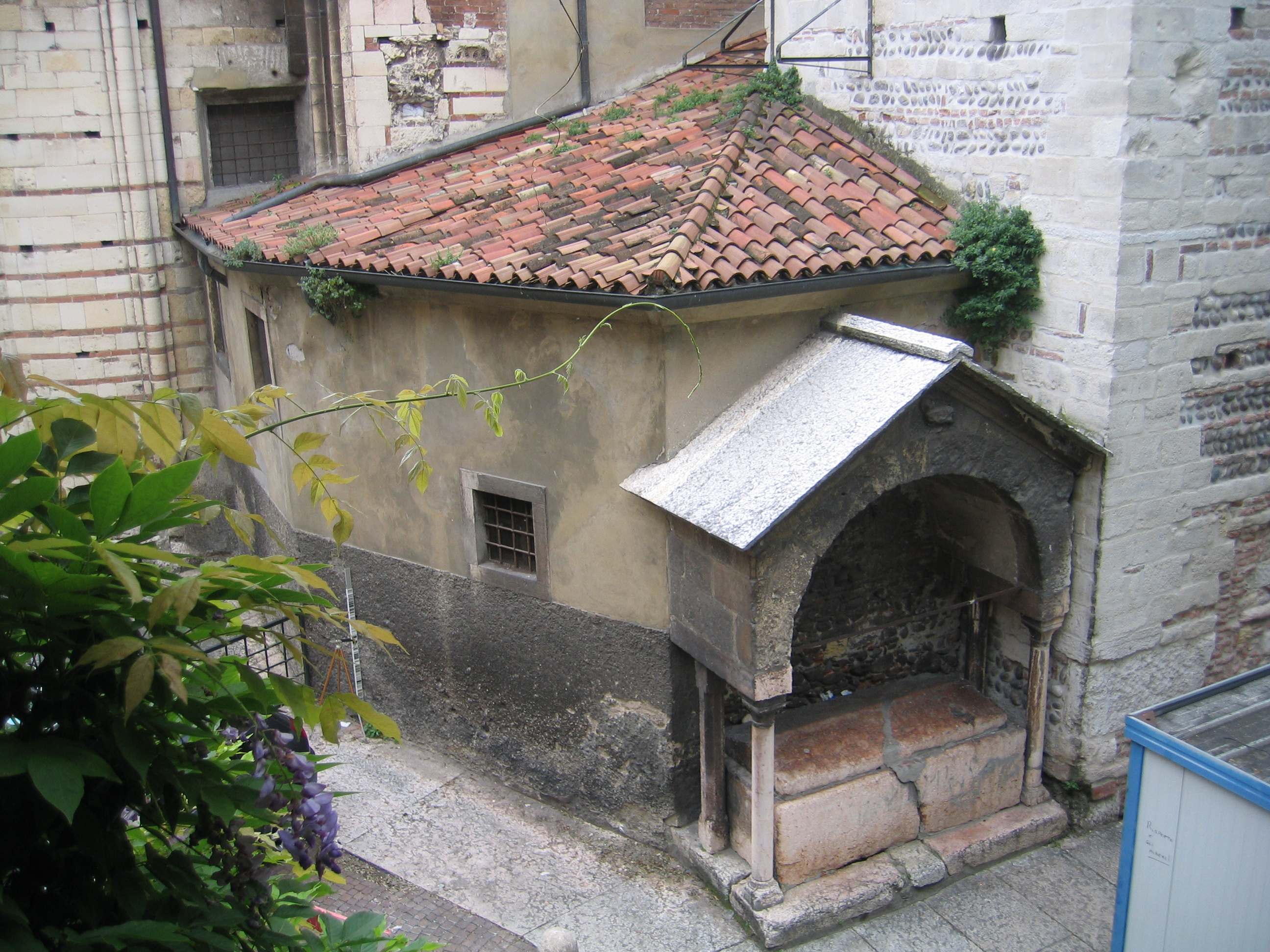 Church SS. Apostoli, Verona (IT)